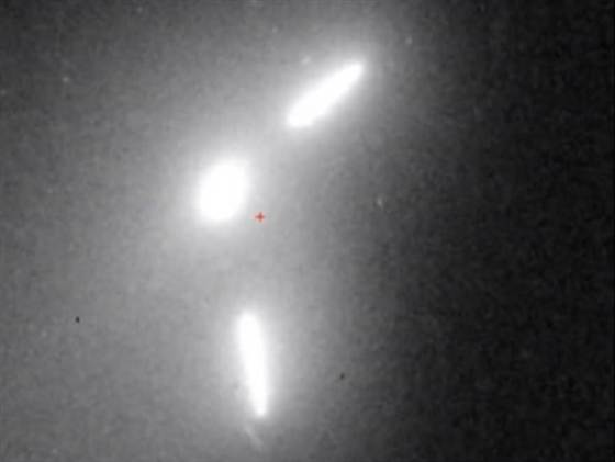 Composite of three Hubble Space Telescope images taken between 03:35 and 16:47 on April 30, 2013; the streaks are due to movement of the comet and the telescope.